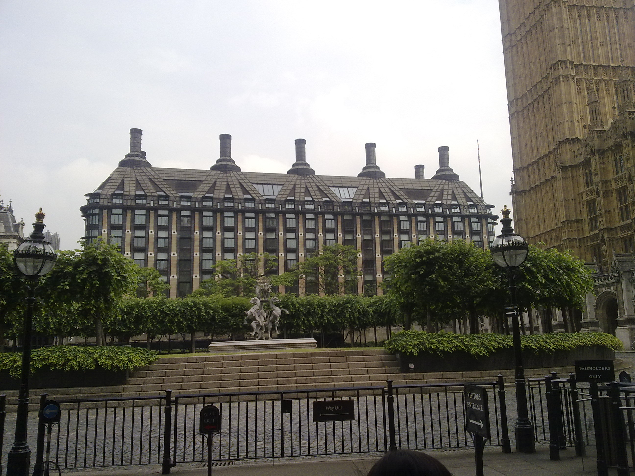 Portcullis House looking from the south, in the grounds on the Houses of Parliament.